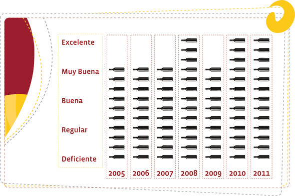 Calificación de Añadas